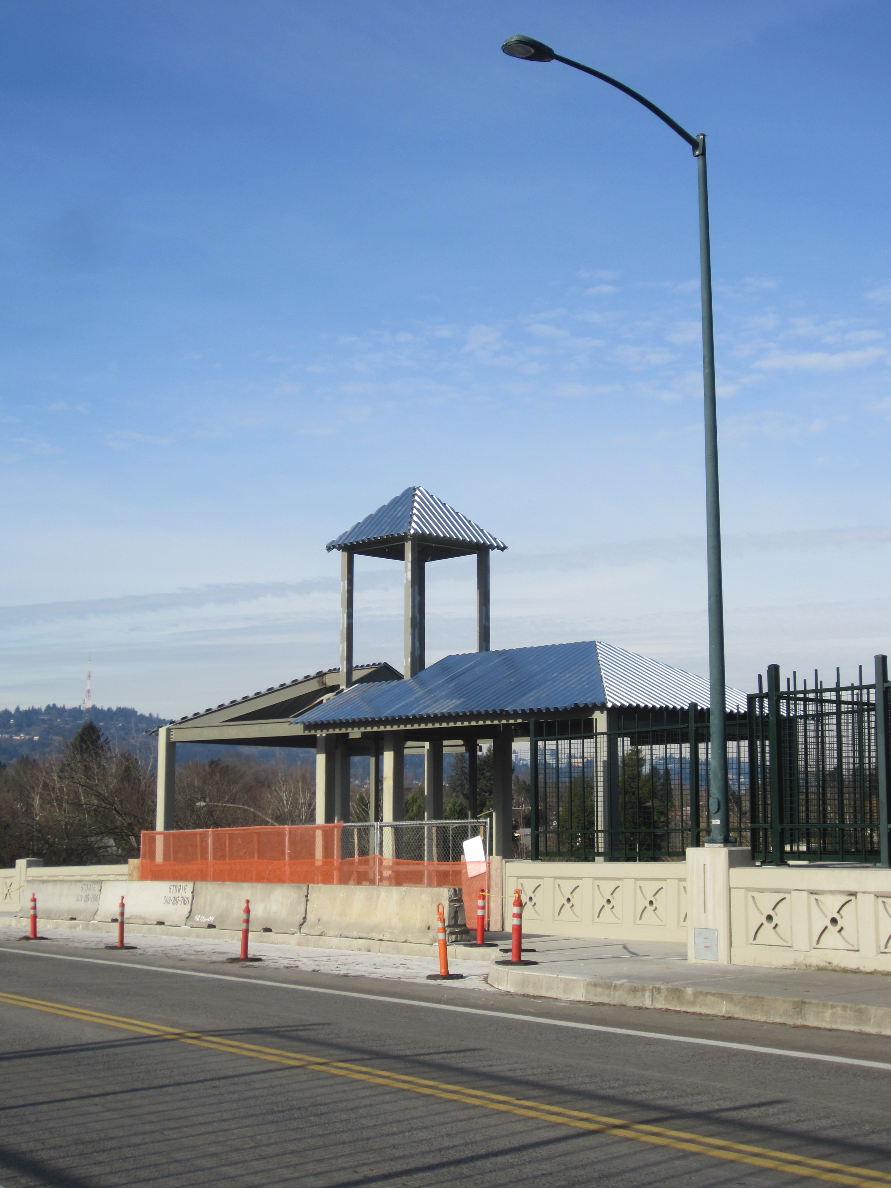 Bybee Bridge, Portland, Oregon (2015)